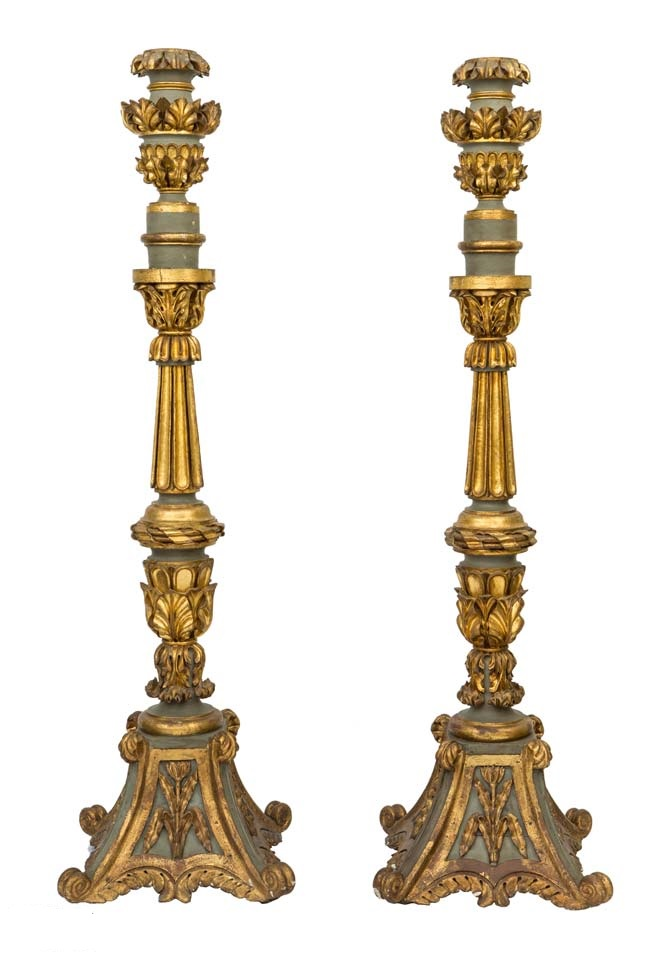 Baroque wooden torchbearers